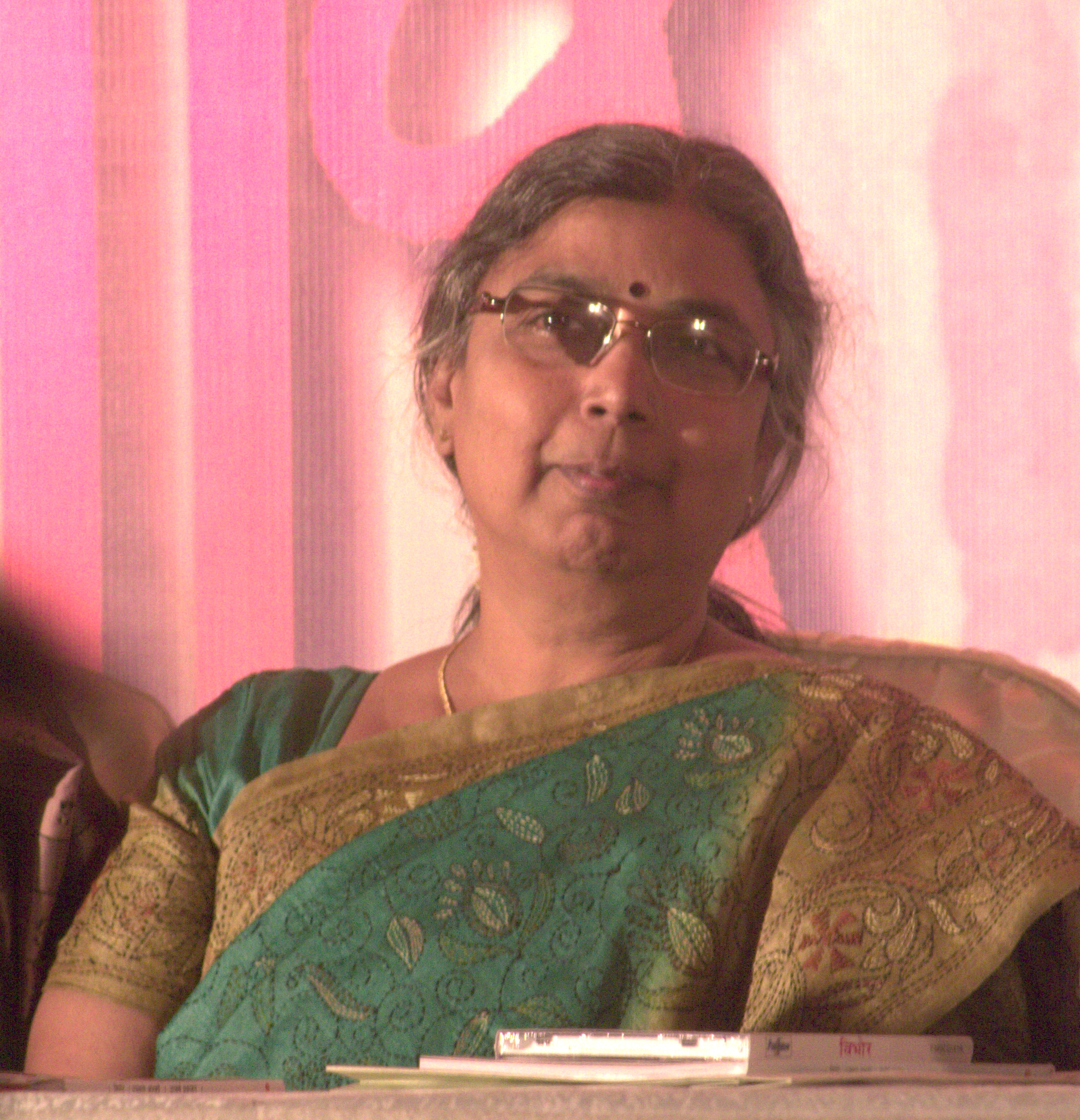 Aruna Dhere at a CD publication.